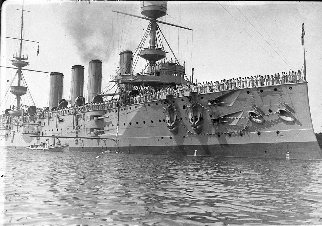 Sailors on deck of four-funnel cruiser HMS Powerful, Australian Squadron, Sydney Harbour